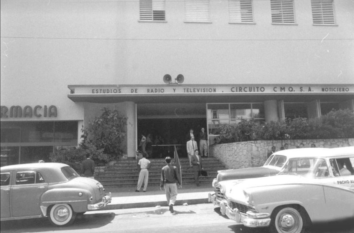 Edificio Radiocentro CMQ. Havana, Cuba